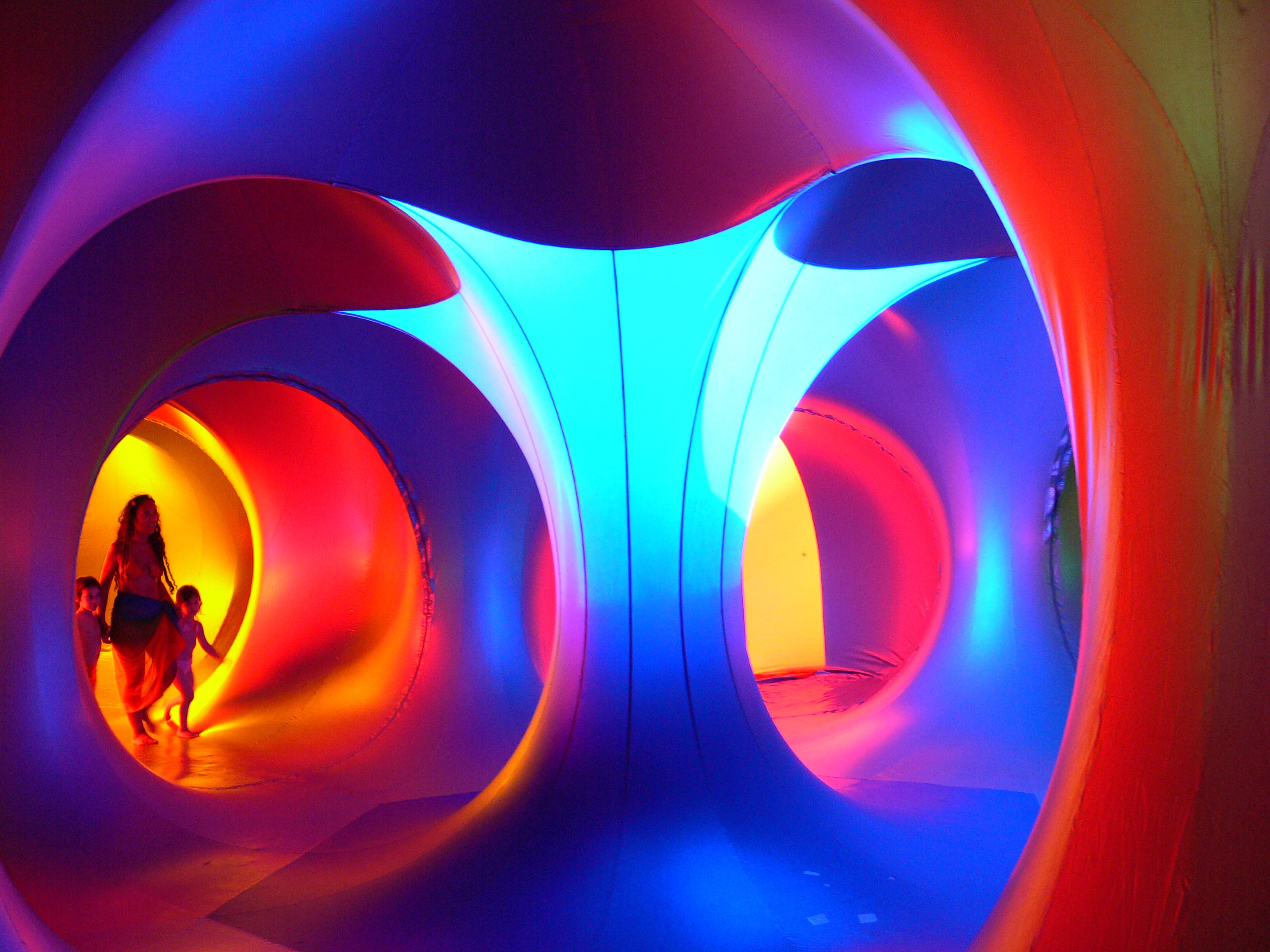 Architects of Air - Levity II centre dome